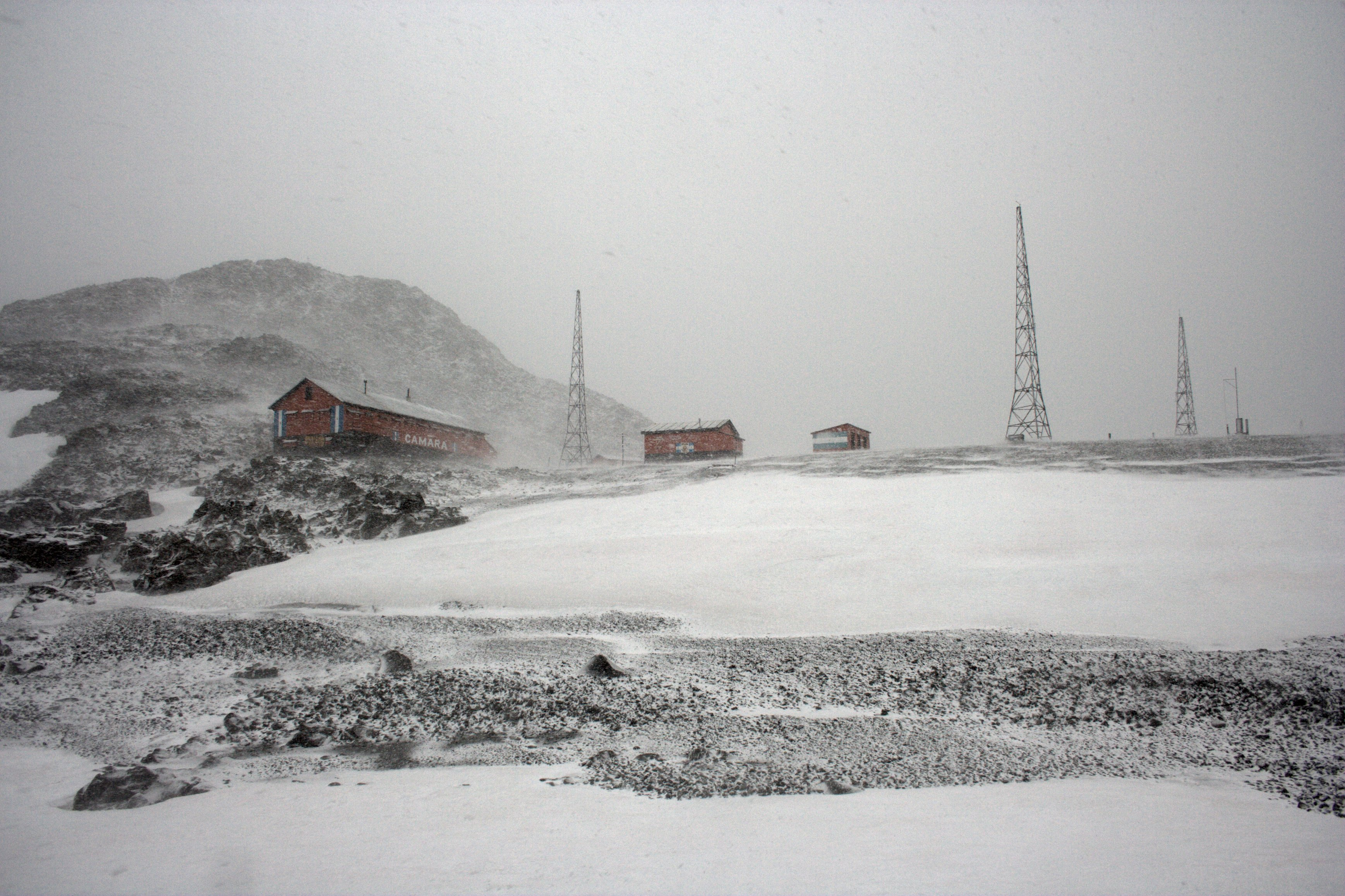 The Argentinian Cámara Station in Half Moon Island, Antarctica